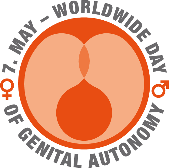 This is the official logo of the World Wide Day of Genital Autonomy campaign, initiated by MOGiS e.V. in 2013, to remember a judgement of the District Court of Cologne (Germany) from May 7th, 2012, against medically not indicated foreskin amputation on minors.